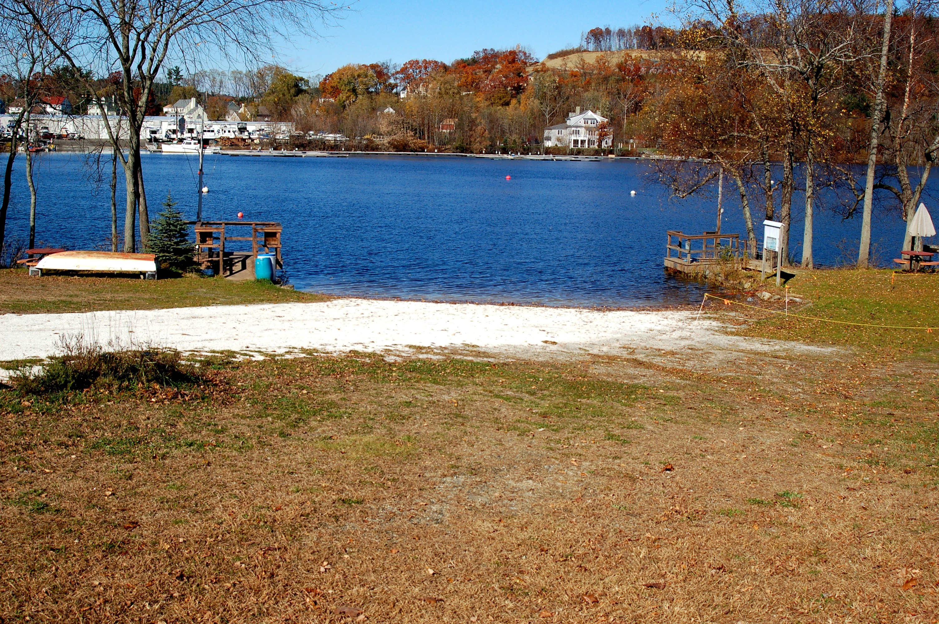 Boat Ramp at Groveland, Massachusetts. Photo by Author, Richard B. Johnson.